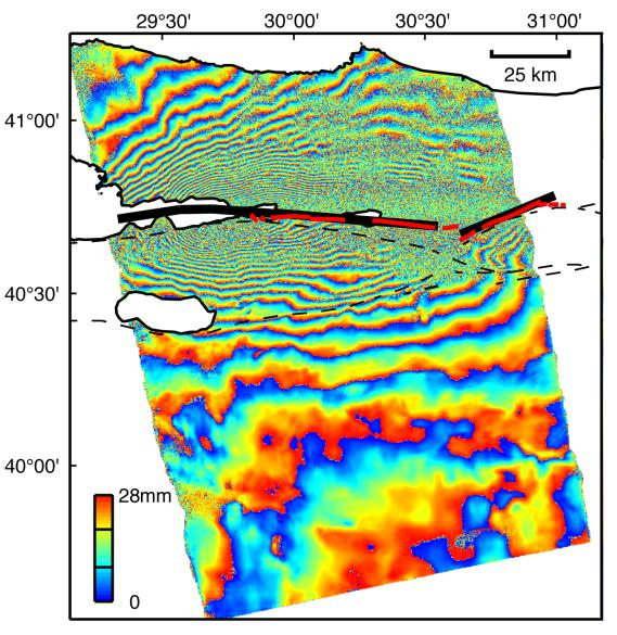 PIA00557: Izmit, Turkey 1999 Earthquake Interferogram This image is an interferogram that was created using pairs of images taken by Synthetic Aperture Radar (SAR). The images, acquired at two different times, have been combined to measure surface deformation or changes that may have occurred during the time between data acquisition. The images were collected by the European Space Agency's Remote Sensing satellite (ERS-2) on 13 August 1999 and 17 September 1999 and were combined to produce these image maps of the apparent surface deformation, or changes, during and after the 17 August 1999 Izmit, Turkey earthquake. This magnitude 7.6 earthquake was the largest in 60 years in Turkey and caused extensive damage and loss of life. Each of the color contours of the interferogram represents 28 mm (1.1 inches) of motion towards the satellite, or about 70 mm (2.8 inches) of horizontal motion. White areas are outside the SAR image or water of seas and lakes. The North Anatolian Fault that broke during the Izmit earthquake moved more than 2.5 meters (8.1 feet) to produce the pattern measured by the interferogram. Thin red lines show the locations of fault breaks mapped on the surface. The SAR interferogram shows that the deformation and fault slip extended west of the surface faults, underneath the Gulf of Izmit. Thick black lines mark the fault rupture inferred from the SAR data. Scientists are using the SAR interferometry along with other data collected on the ground to estimate the pattern of slip that occurred during the Izmit earthquake. This then used to improve computer models that predict how this deformation transferred stress to other faults and to the continuation of the North Anatolian Fault, which extends to the west past the large city of Istanbul. These models show that the Izmit earthquake further increased the already high probability of a major earthquake near Istanbul.